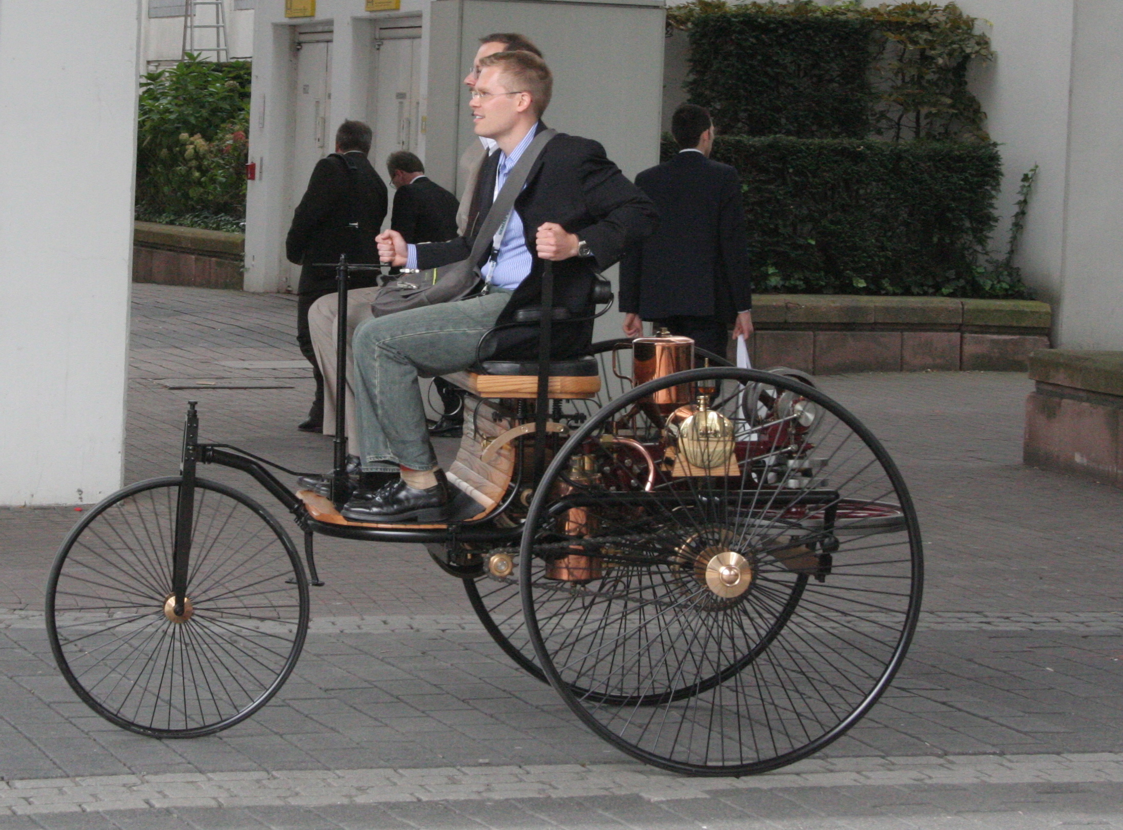 Image from IAA 2007 in Frankfurt am Main. Working reproduction of 1880s pioneer automobile Benz Patent Motorwagen